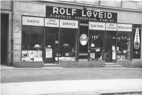 Electrical shop Rolf Løveid display windows probably in 1950 - 1960. Oslo.